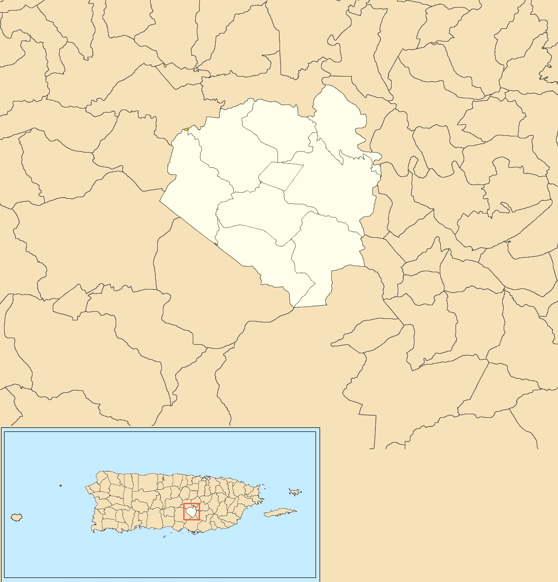 Barrios of Aibonito, Puerto Rico locator map labeled